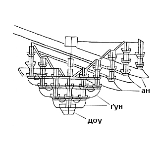 Scheme of architectural element Dougong in Ukrainian